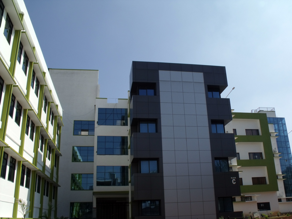 C block, Vidya vardhaka College of Engineering, Mysore, houses EEE and ECE departments.